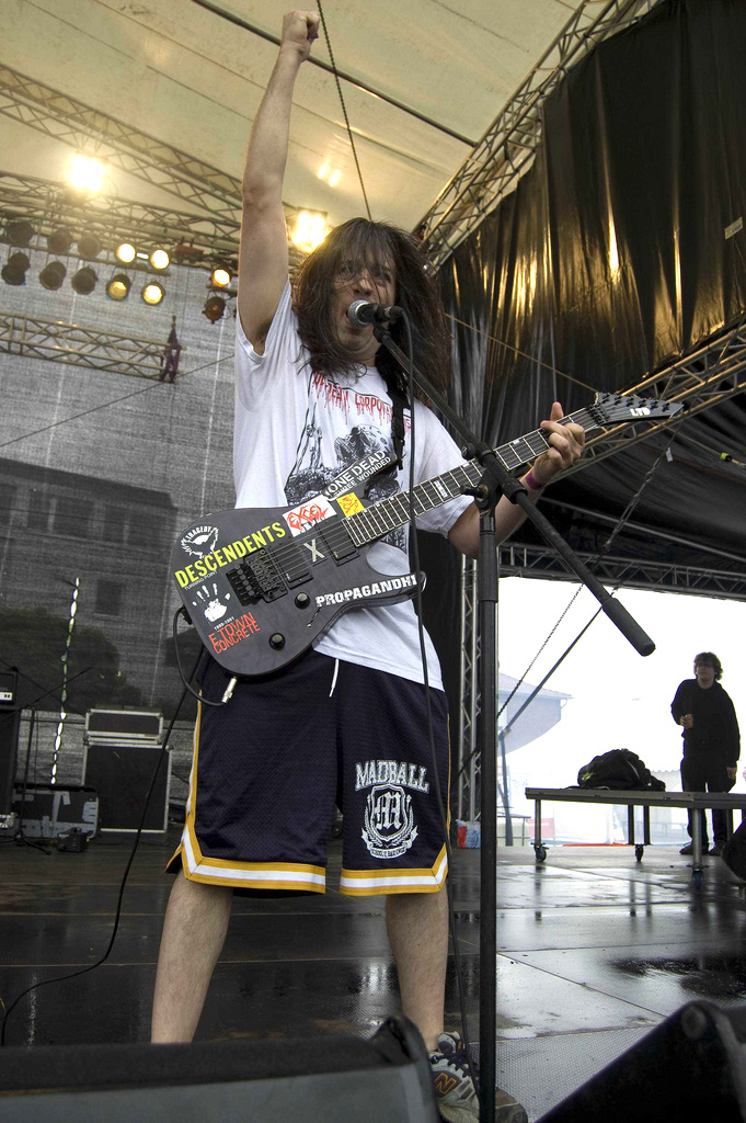 Shai Hulud guitarist, Matt Fox at Vainstream Rockfest 2008